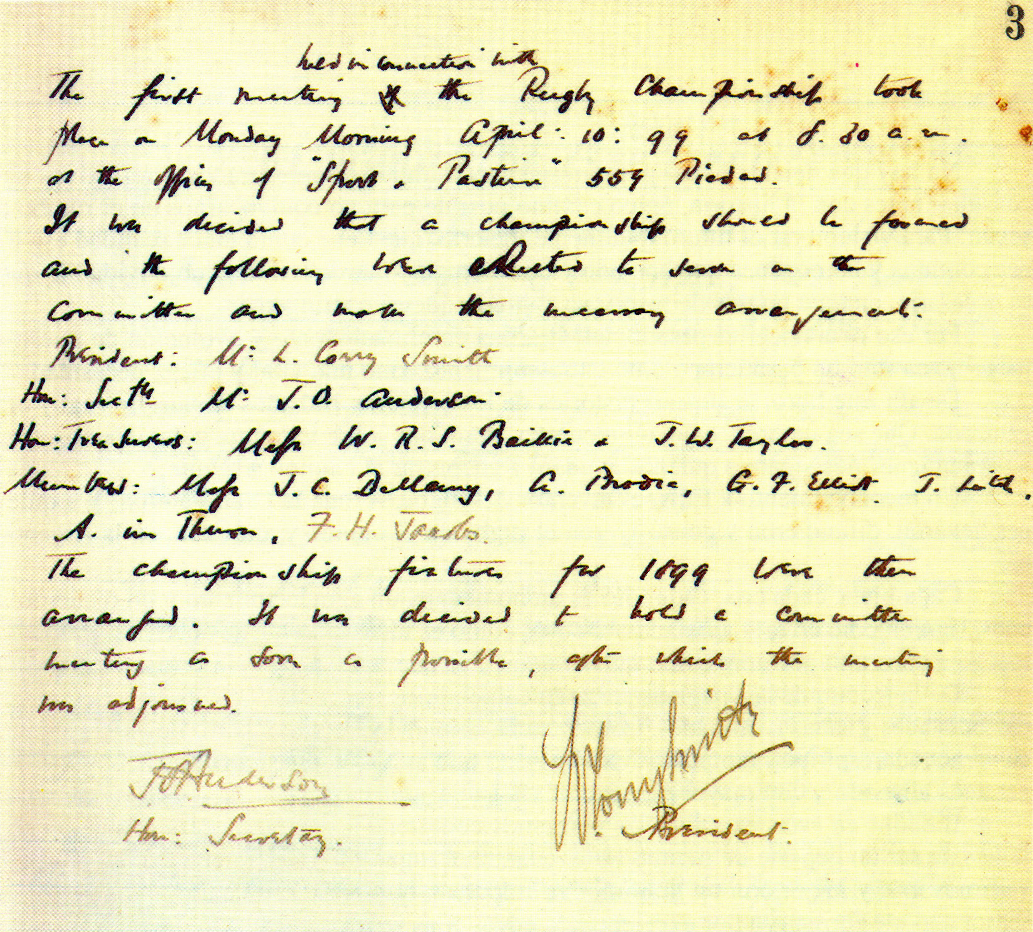 Act of foundation of the River Plate Rugby Union Championship (current "UAR").